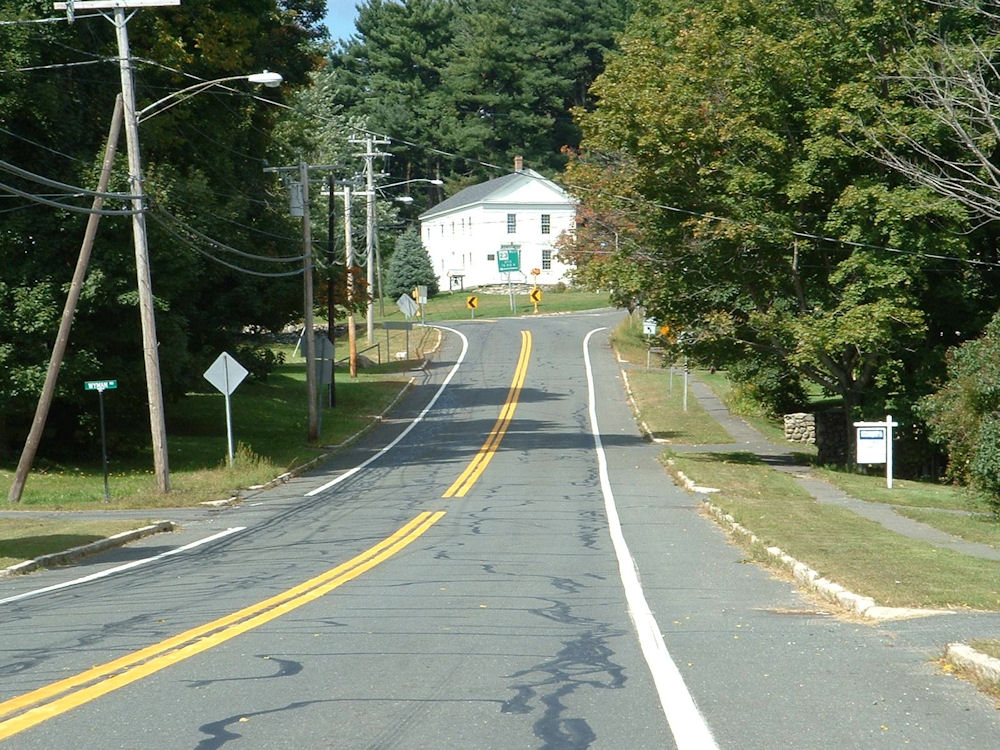 Looking westward along Route 23 in Blandford, Massachusetts